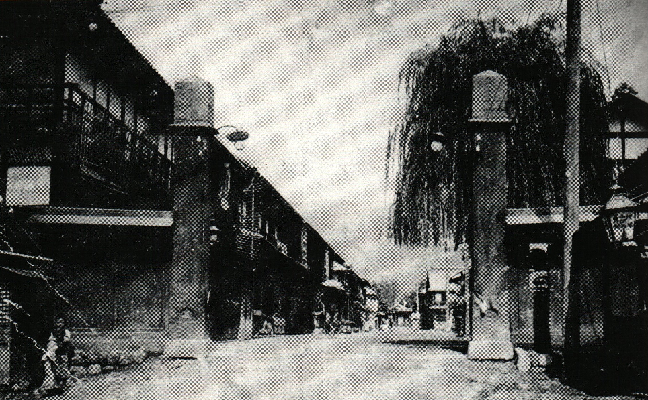 Shinyanagi-Yukaku was a Akasen district (red-light district) in Kōfu, Yamanashi, Japan